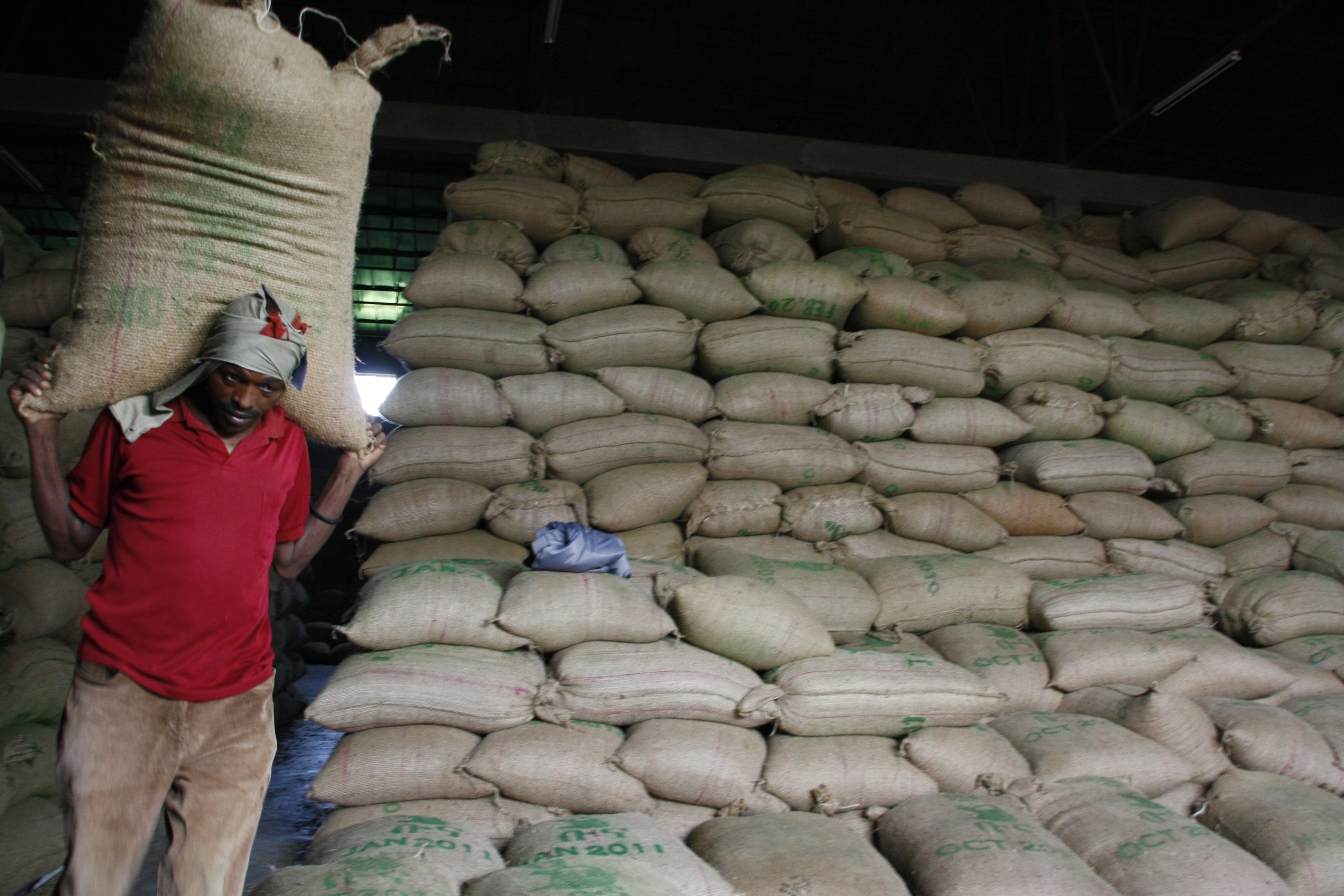 Moving coffee at the Ethiopian Commodity Exchange's warehouse in Awassa. Last year, the warehouse handled more than 870,000 bags of coffee. The coffee is stored according to quality – in grades from one to ten. DFID supported two leading research institutes who were tasked with finding a solution to Ethiopia's inefficient food and commodity markets. The UK aid funded research recommended setting up a commodity exchange and helped to design the warehousing, logistics and payment systems that the exchange uses today. The exchange helps to boost exports and secure a better deal for farmers and consumers. Photo: Pete Lewis/Department for International Development